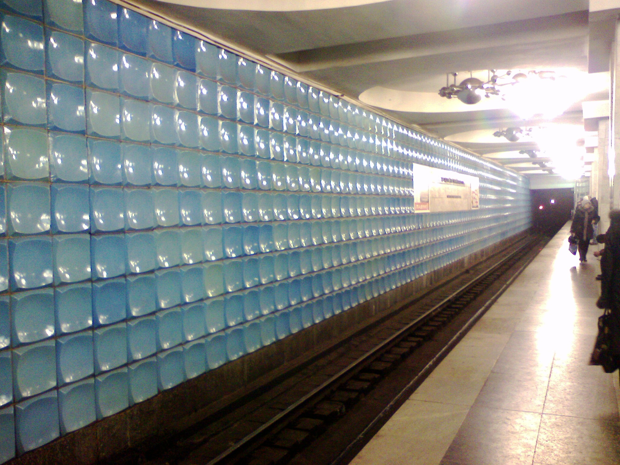 Akademika Barabashova Metro Station in Kharkiv, Ukraine.